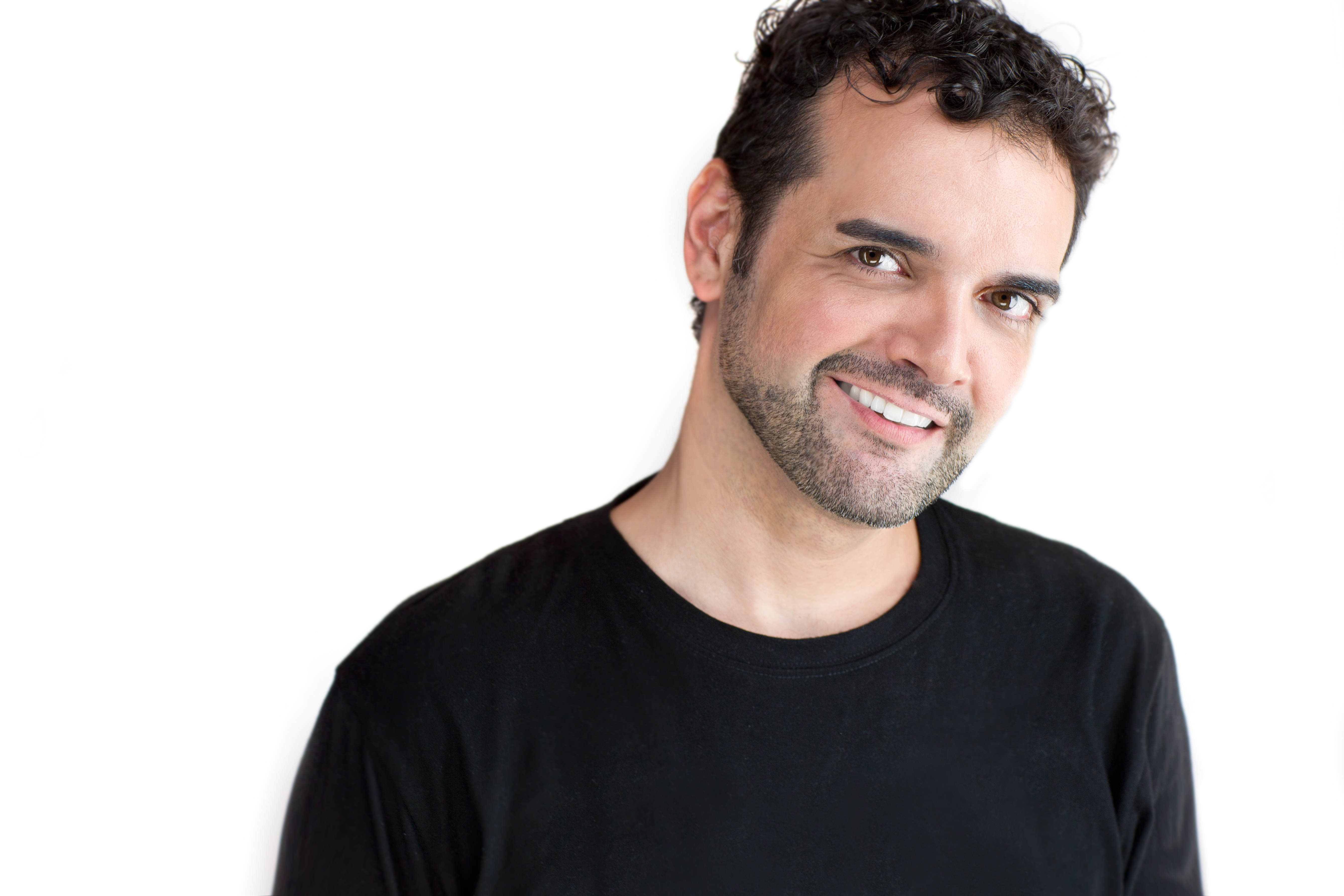 Roberto F. Canuto Promotional Headshot 2013